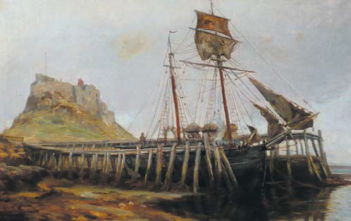 Lime staithes near Holy Island Castle by Ralph Hedley. Size: 38 x 61 cm (15 x 24 in)